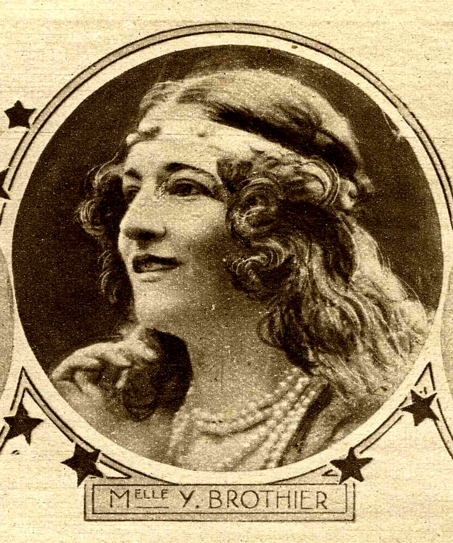 French opera singer Yvonne Brothier